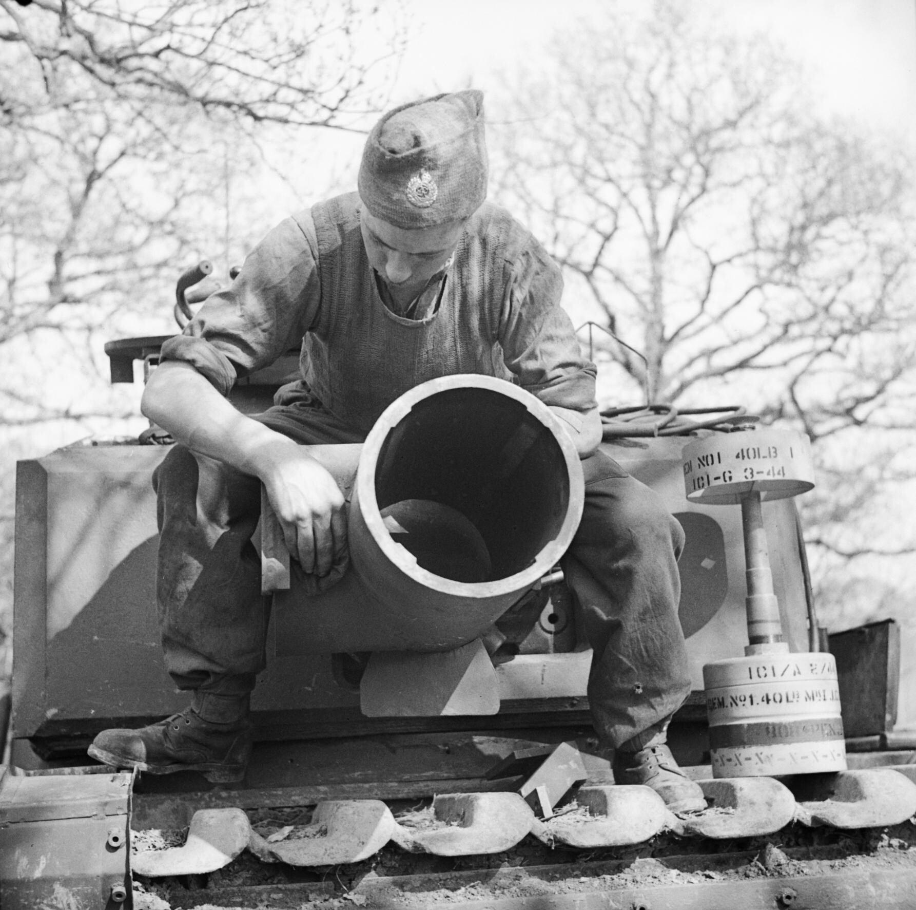 The 29cm Petard spigot mortar on a Churchill AVRE of 79th Squadron, 5th Assault Regiment, Royal Engineers, under command of 3rd Infantry Division, 29 April 1944. A 40lb bomb can be seen on the right. The 29cm Petard spigot mortar on a Churchill AVRE of 79th Squadron, 5th Assault Regiment, Royal Engineers, under command of 3rd Infantry Division, 29 April 1944. A 40lb bomb can be seen on the right.